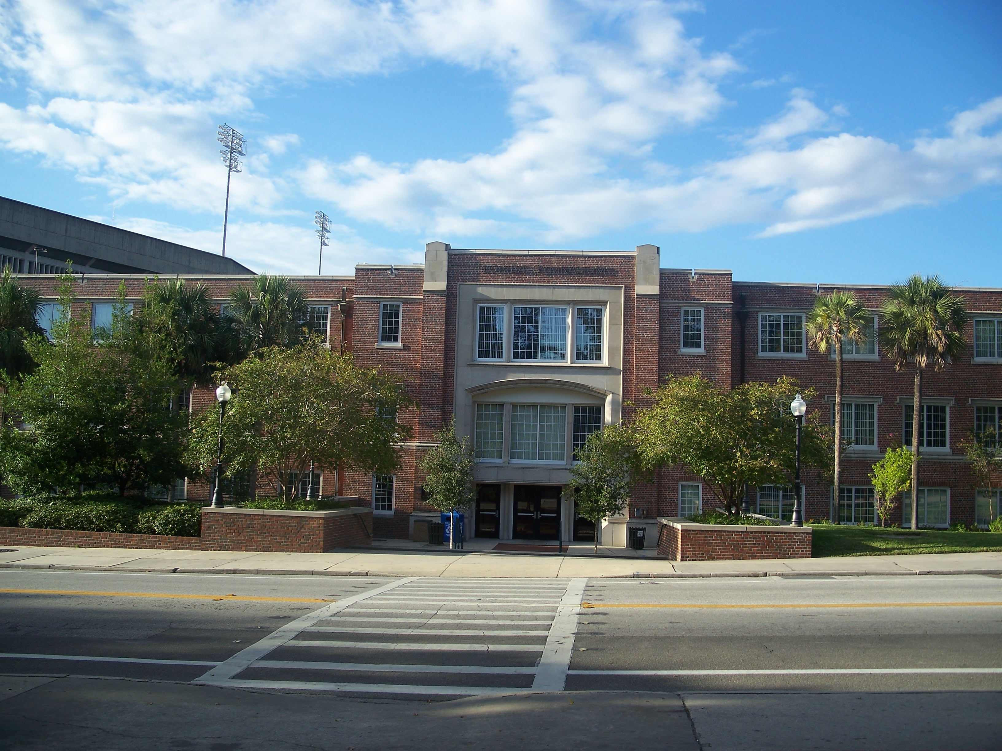 Gainesville, Florida: University of Florida: Florida Gymnasium